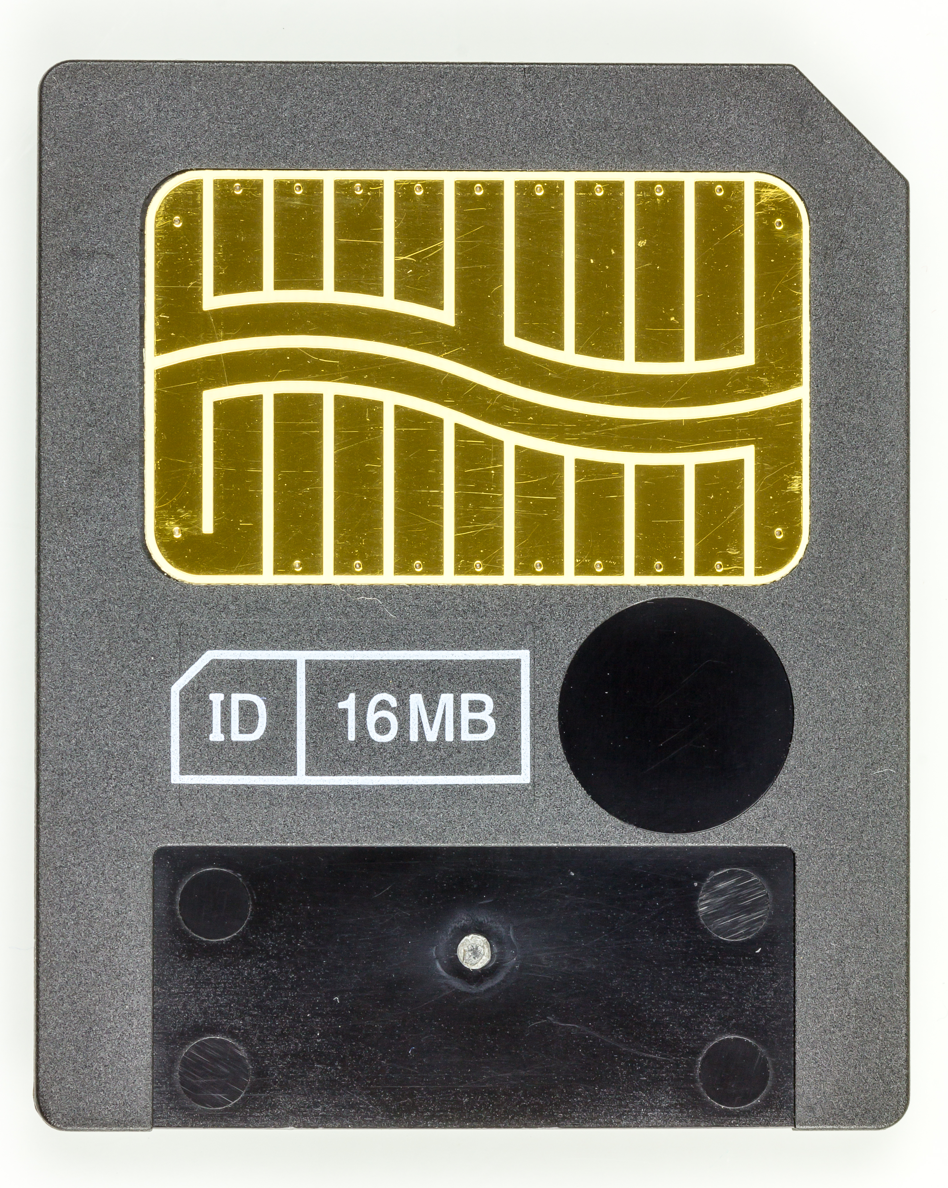 Olympus SmartMedia M-16P. Capacity: 16 MB